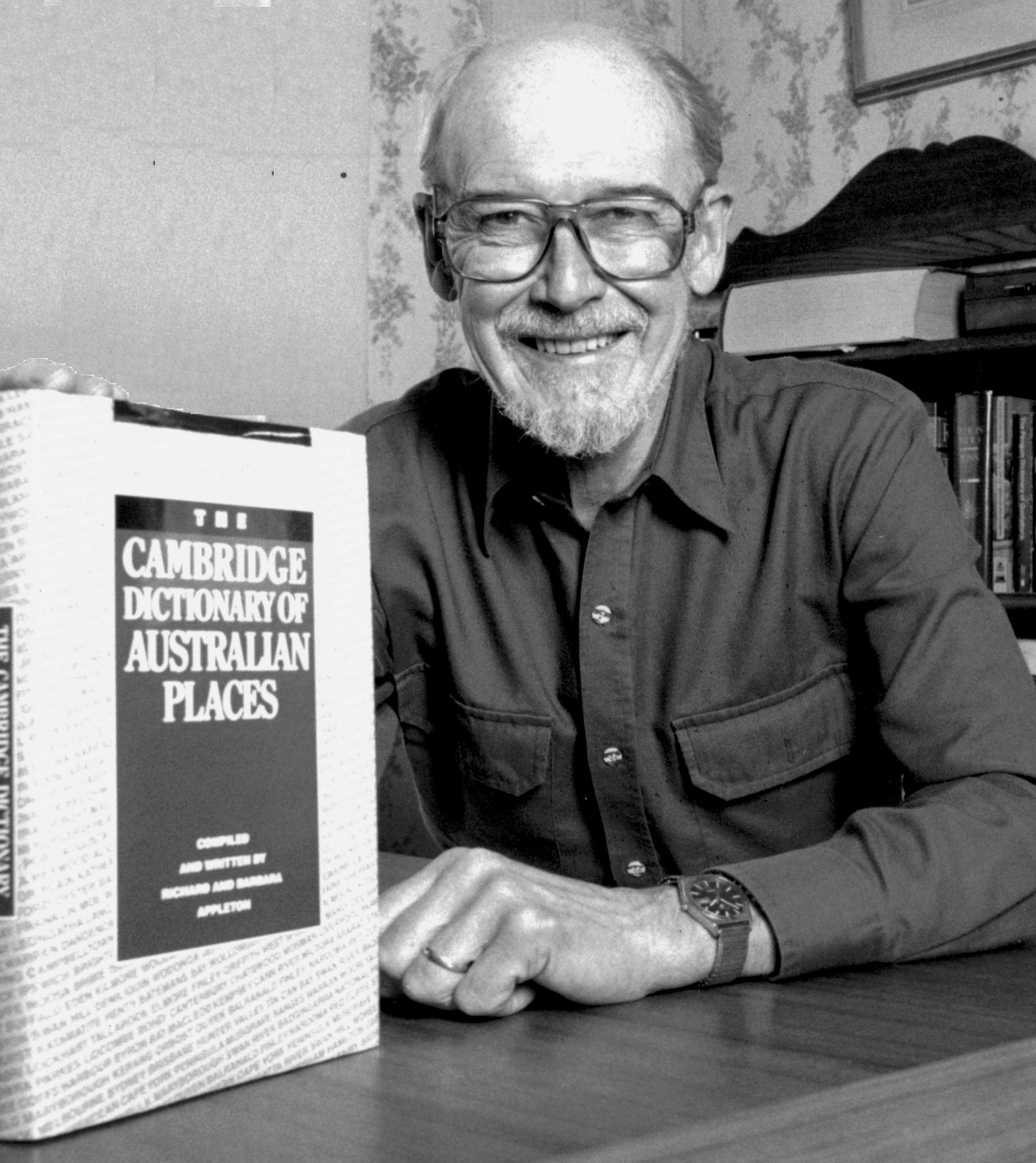 Australian editor Richard Appleton with the Cambridge Dictionary of Australian Places, compiled by himself with wife Barbara